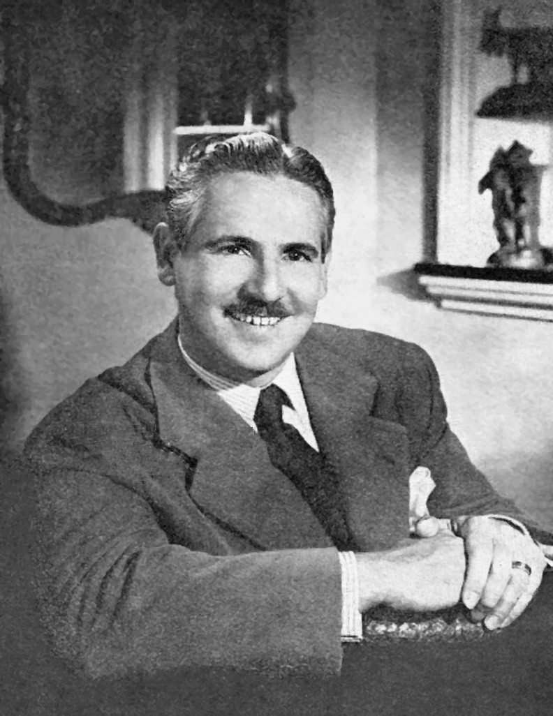 Official Cuban Government photo of President Carlos Prio Socarras